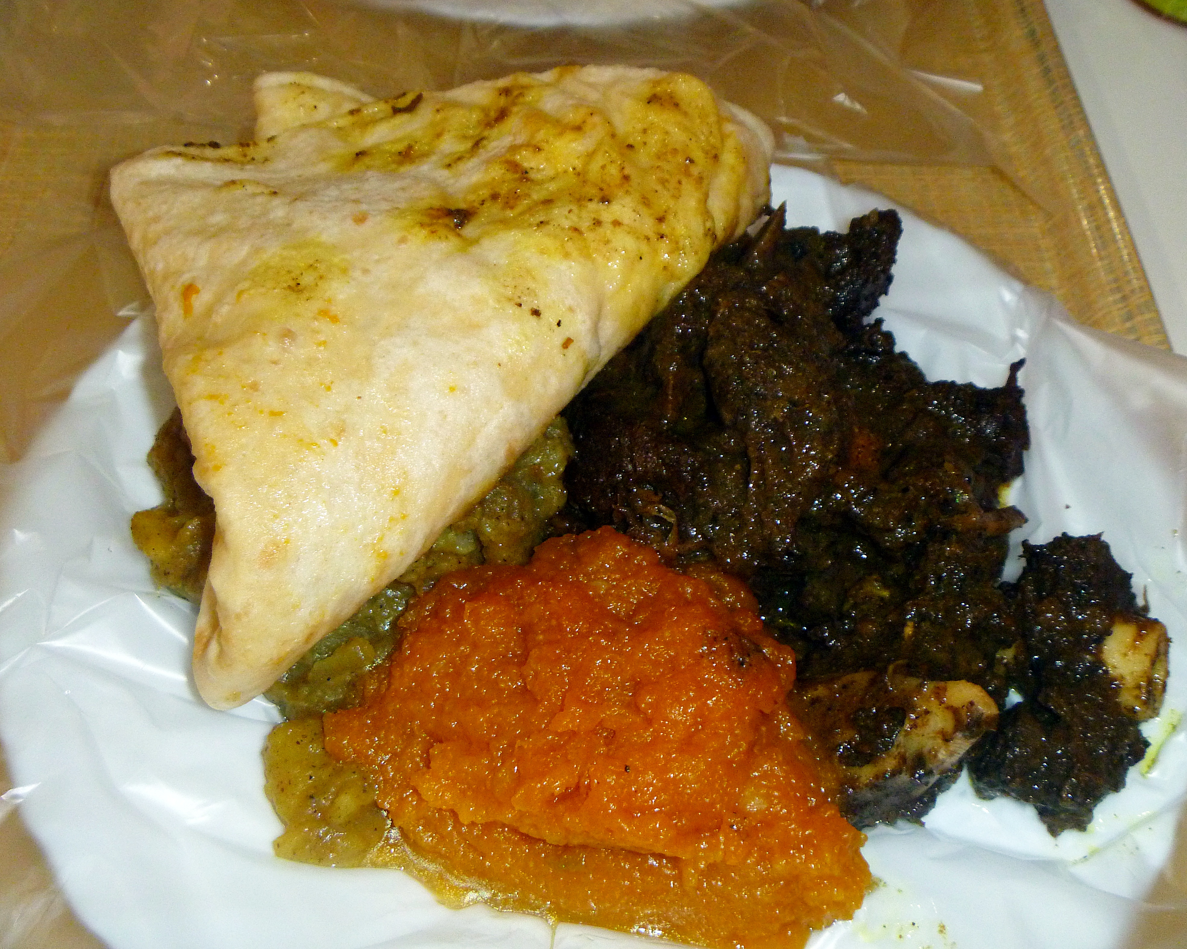 A mouth-watering meal served at many Roti Shops throughout the country.